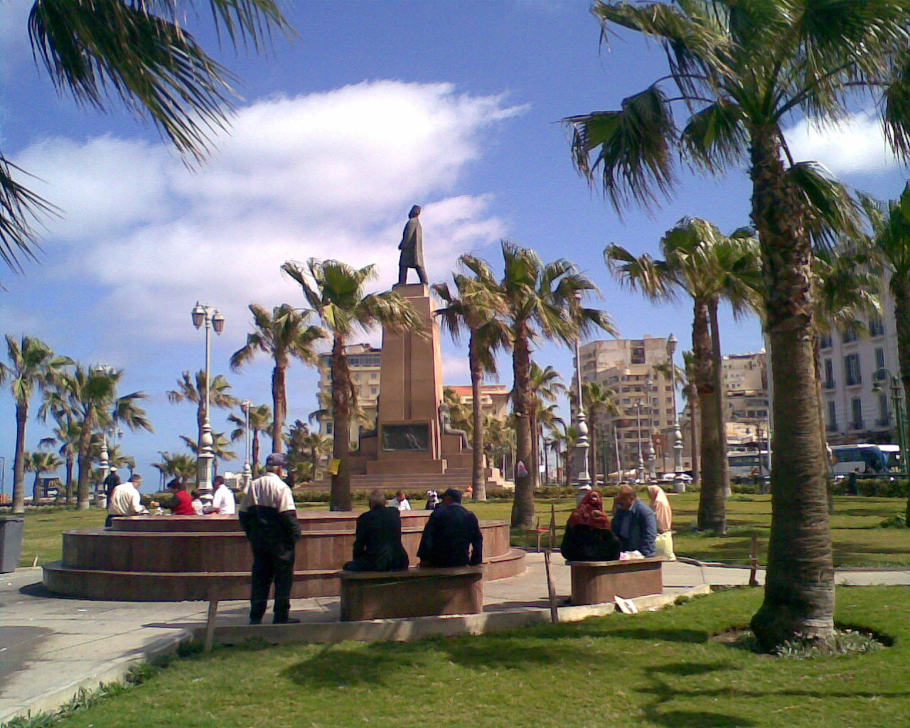 Saad Zaghloul statue at Saad Zaghloul square, Ramleh Station, Alexandria, Egypt.